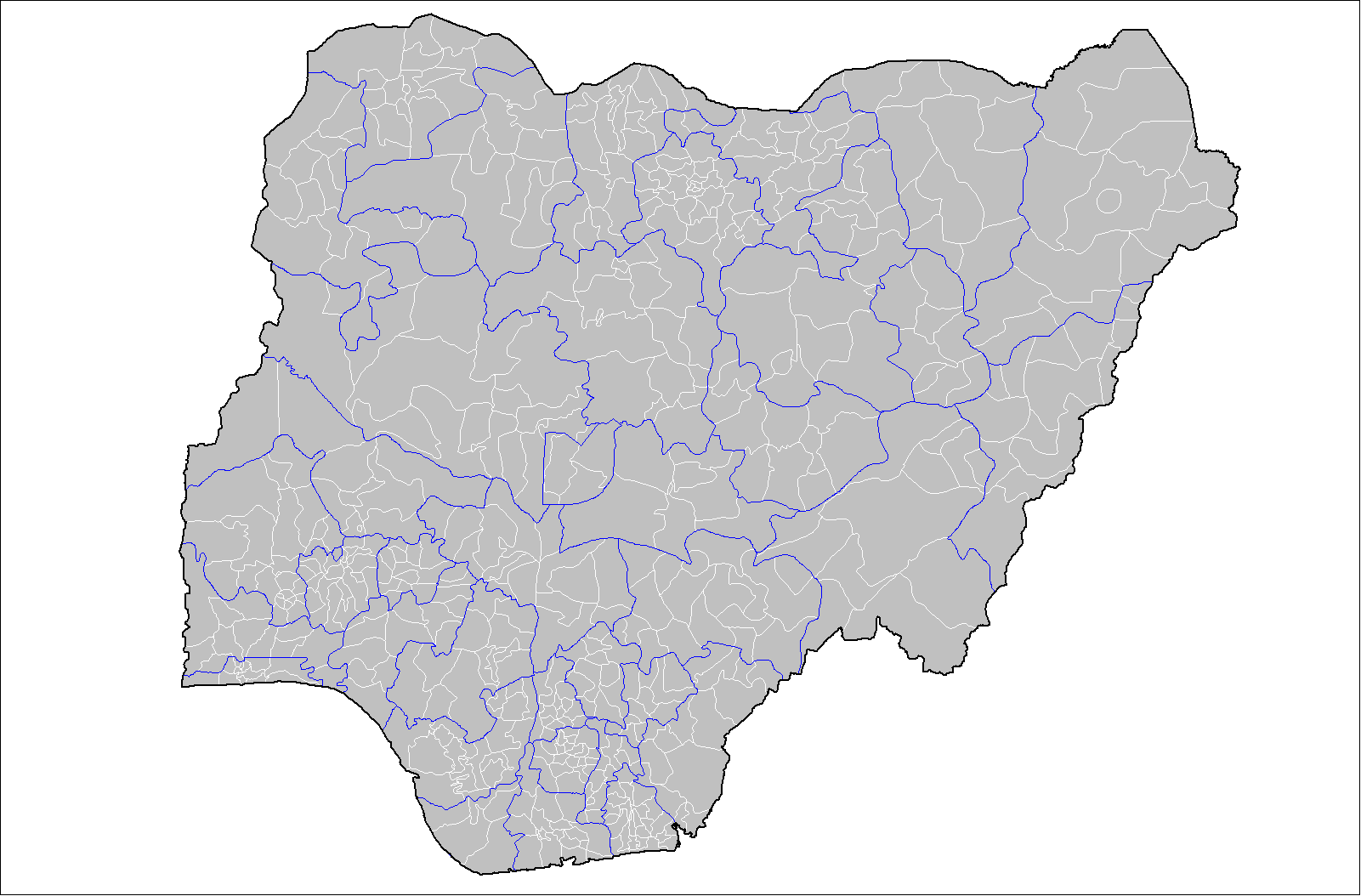 Map of the local government areas of Nigeria. Created by Rarelibra 15:42, 12 July 2007 (UTC) using MapInfo Professional v8.5 and various mapping resources.